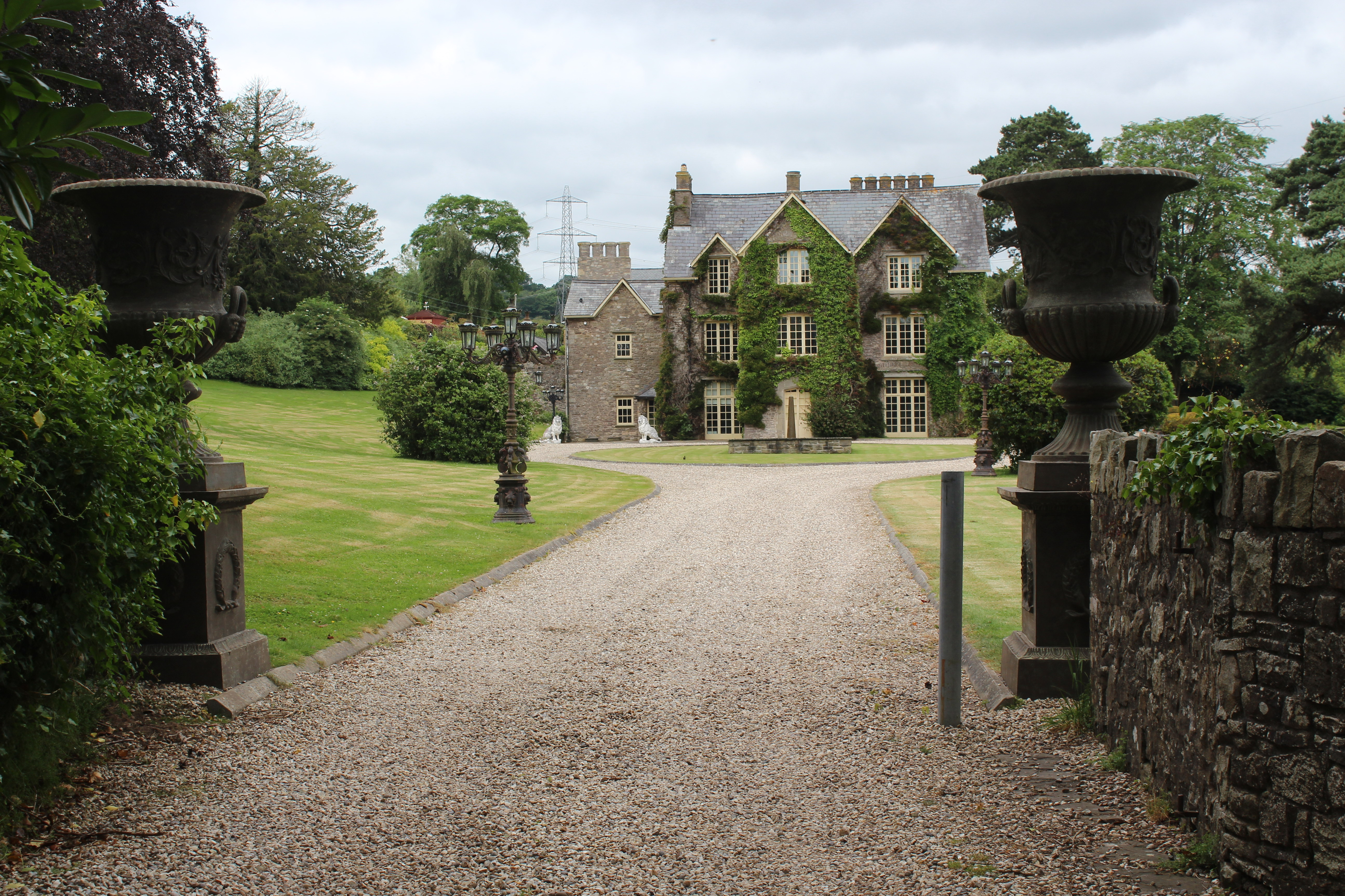 Llanwenarth House, near Govilon